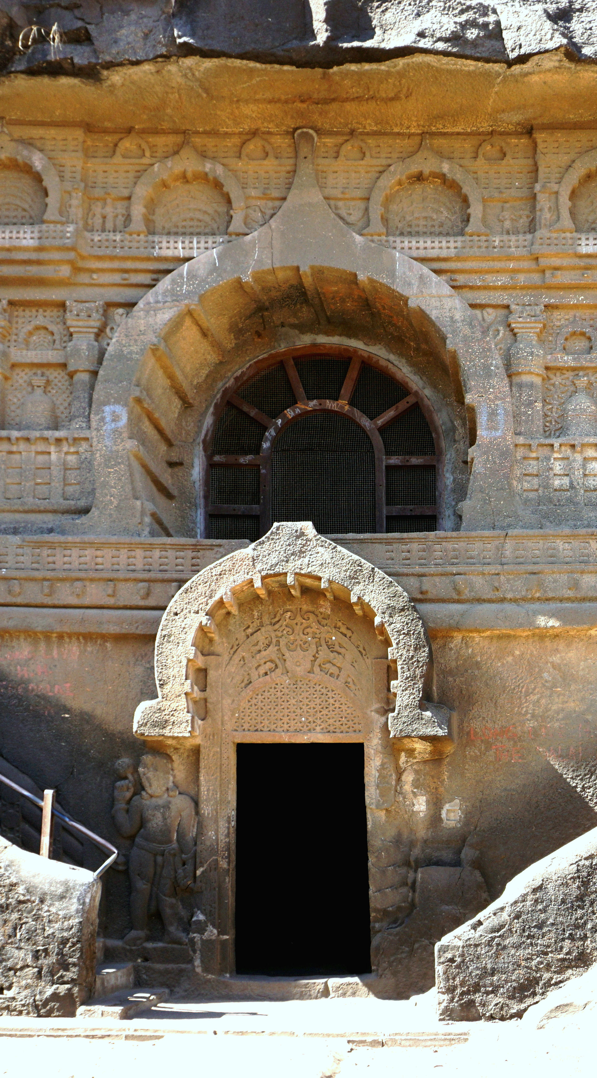 Nasik Cave 18 doorway